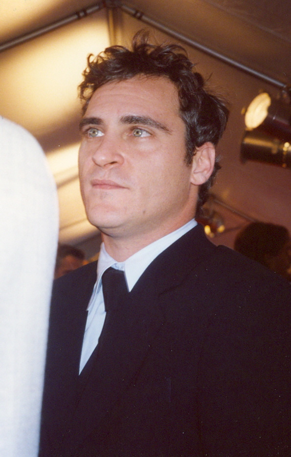 Joaquin Phoenix getting interviewed at the premiere of Walk The Line at the Toronto International Film Festival.Walk The Line_006.jpg